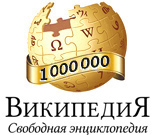 1M articles in Russian Wikipedia logo